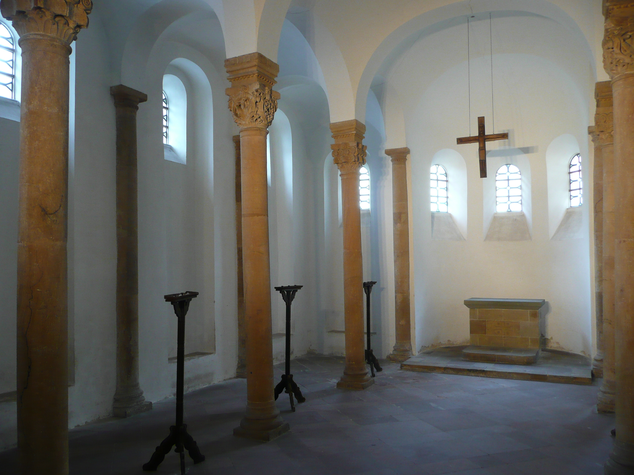 Paderborn, Germany: St. Bartholomew's Chapel close to the Cathedral, built about 1017, first known hall church north of the Alps.